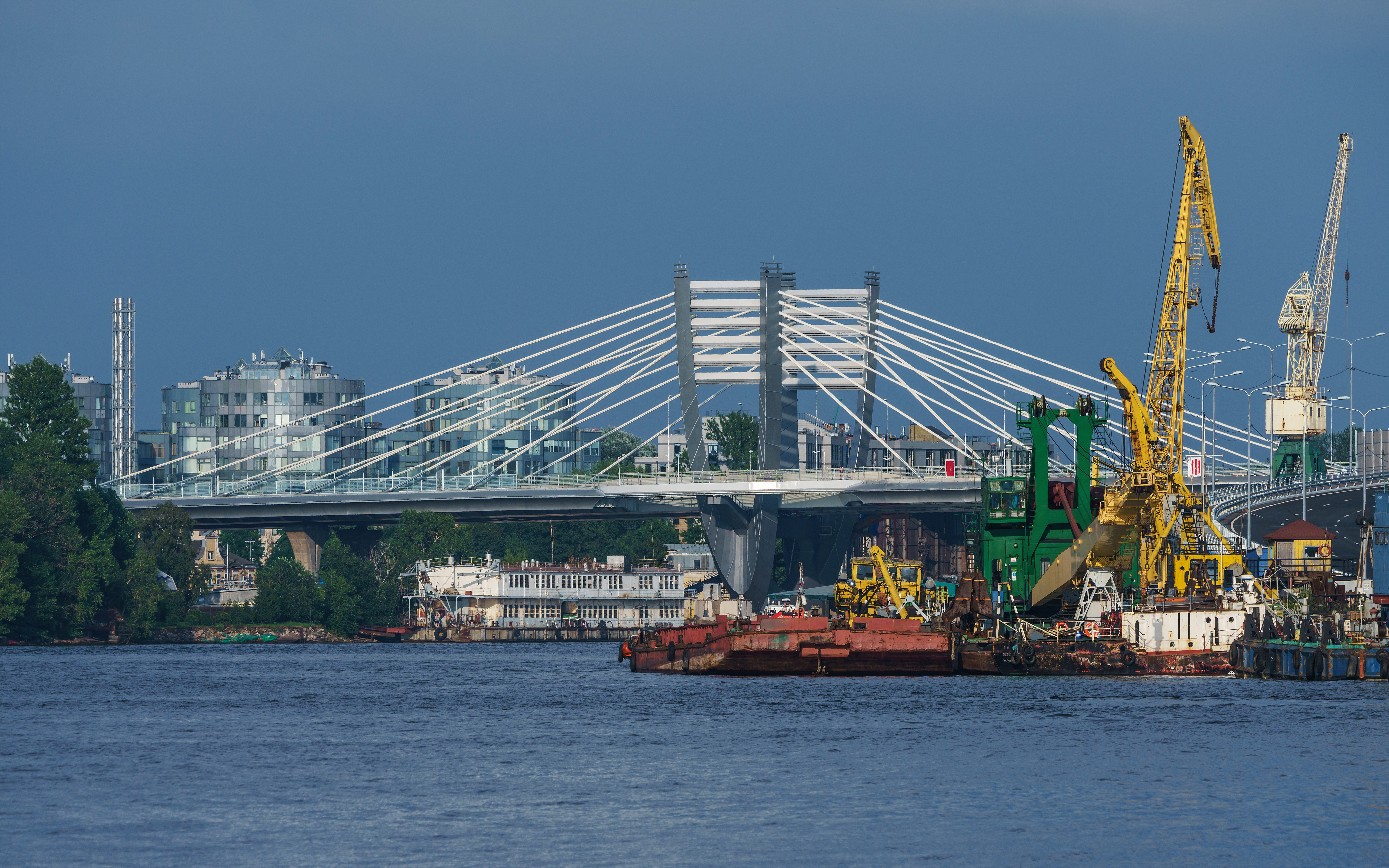 View of Betancourt Bridge in Saint Petersburg, Russia.